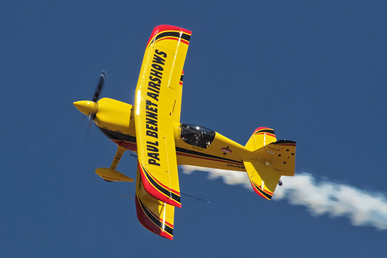 Wolf Pitts Pro